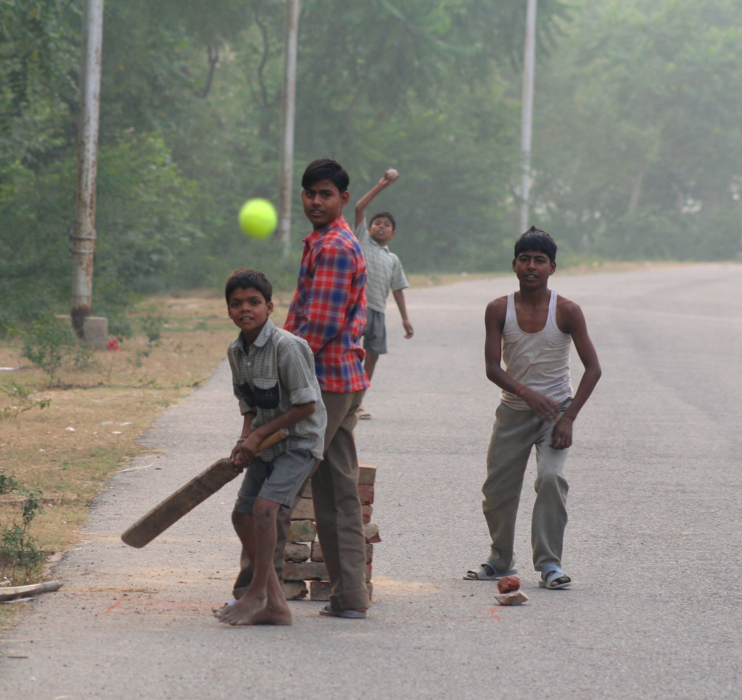 Four Indian boys playing cricket in the street with a new tennis ball provided to them. Photo is taken in Agra, Uttar Pradesh, India.